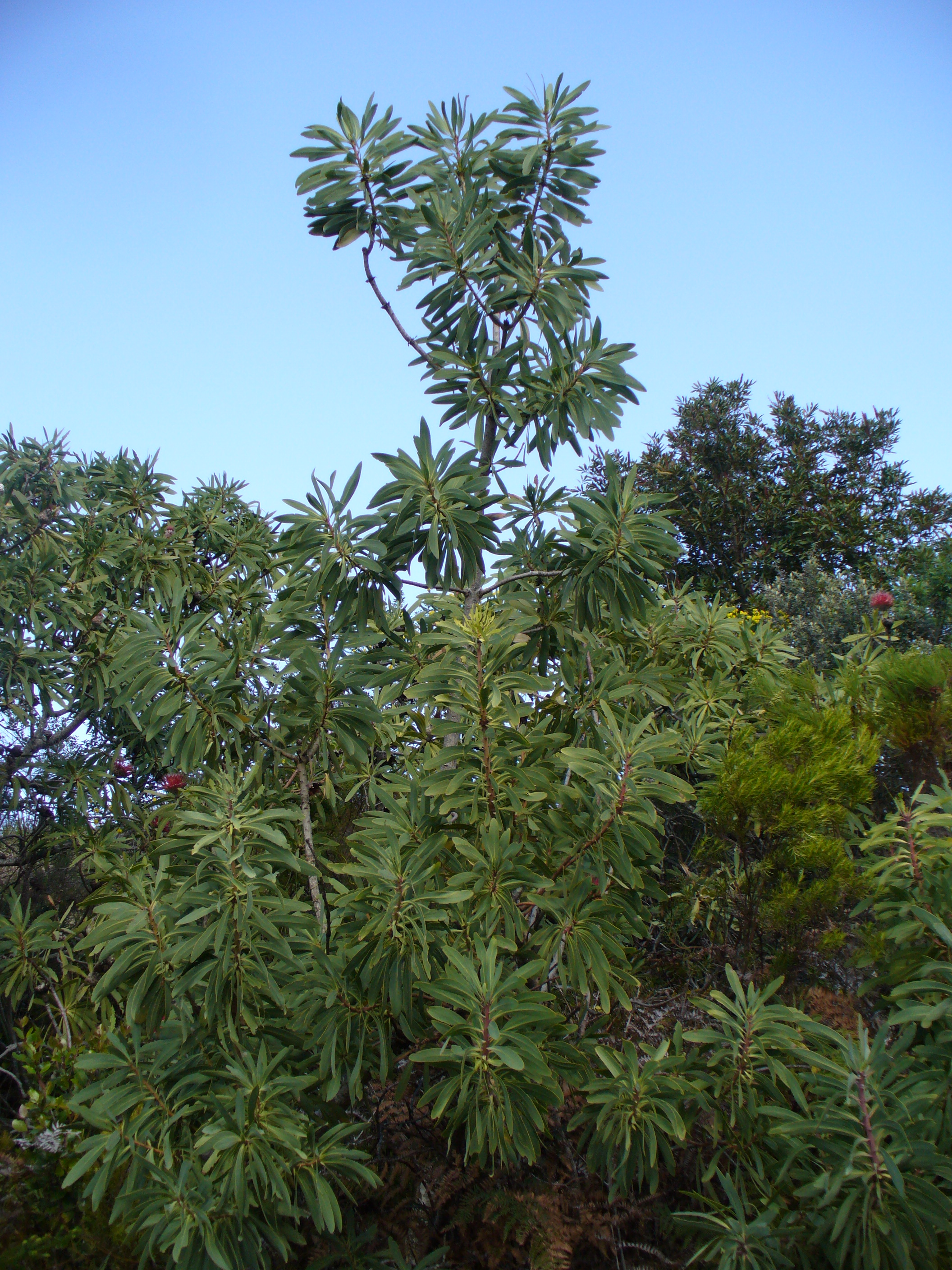 The Blyde River Protea, endemic to the Blyde River Canyon in Mpumalanga, South Africa